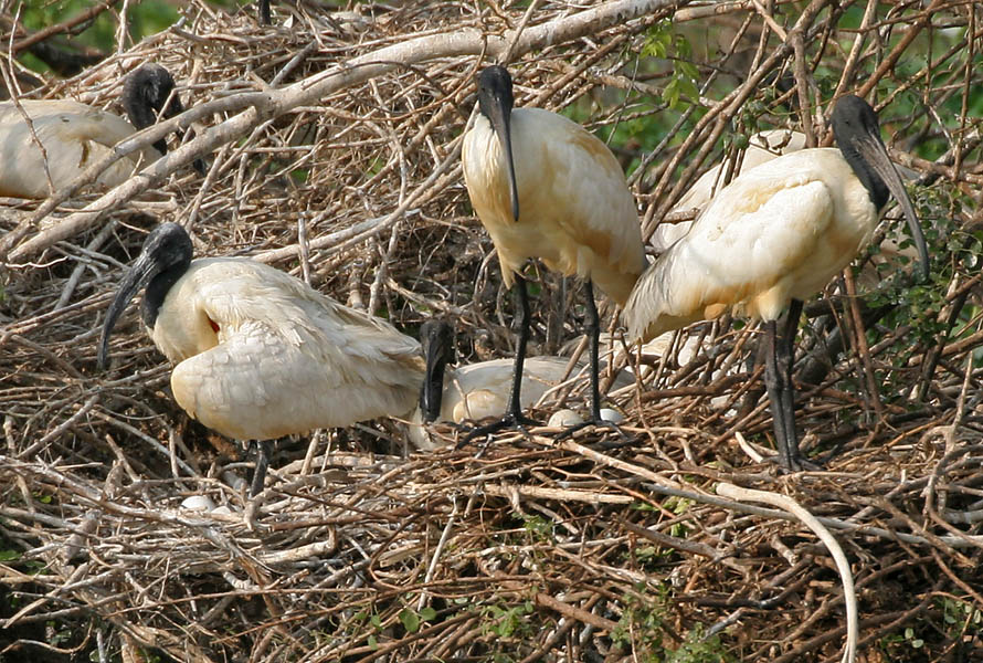 Black-headed Ibis Threskiornis melanocephalus at Garapadu, Andhra Pradesh, India.